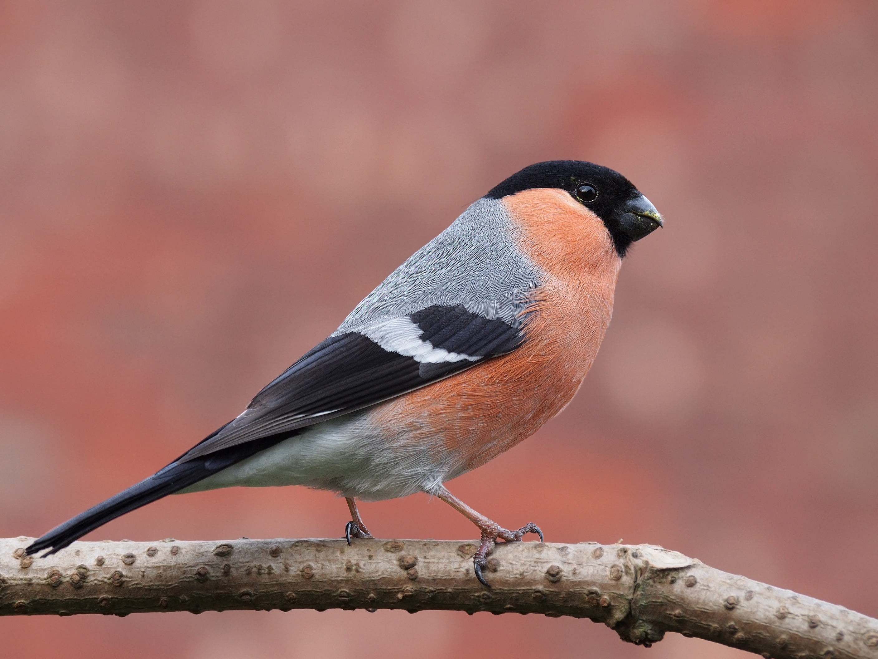 Eurasian Bullfinch (Pyrrhula pyrrhula)